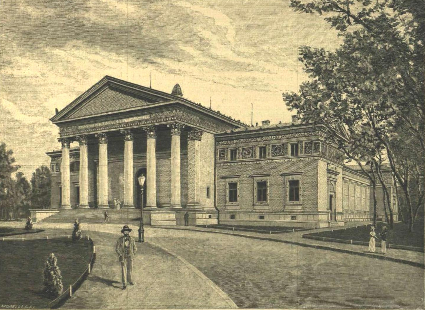 Palace of Art in Budapest, 1896